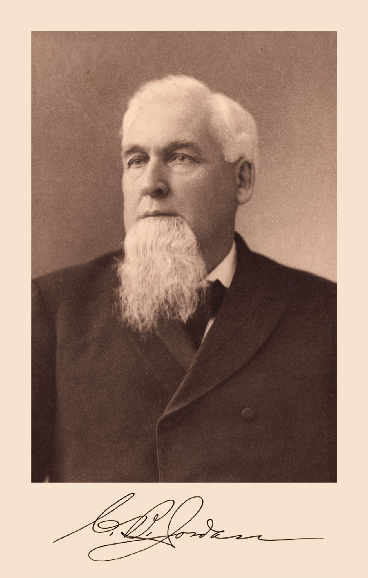 Chester Bradley Jordan, Governor of New Hampshire (1901-1903) including his signature from the Frontispiece of the 1913 book Chester Bradley Jordan: the man and citizen. Other information This file was edited and improved via Photoshop by Marshall Davies Lloyd 16 Aug 2012 (the uploader) but I release all rights for free use.